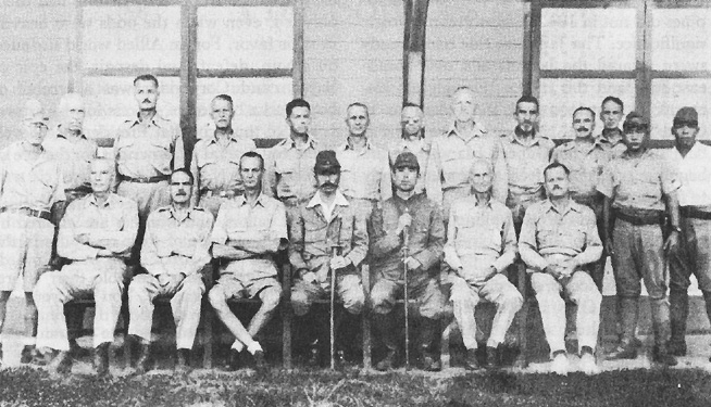 American generals in captivity, July 1942. Seated, left to right: Generals Moore, King, and Wainwright; two Japanese officers; Generals Parker and Jones. Standing, left to right: Japanese messenger; Generals Lough, Funk, Weaver, Brougher, Beebe, Bluemel, Drake, McBride, and Pierce; Colonel Hoffman (interpreter); and two Japanese soldiers.